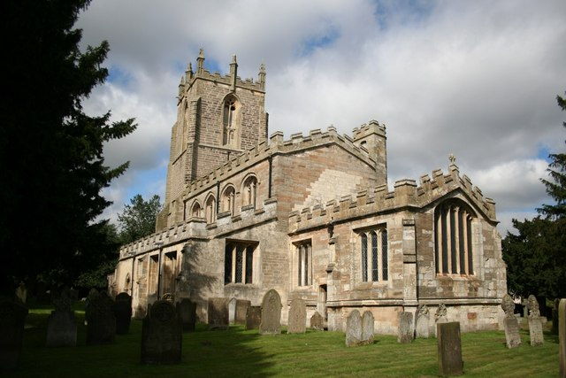 St Peter's parish church, Gamston, Nottinghamshire, seen from the southeast